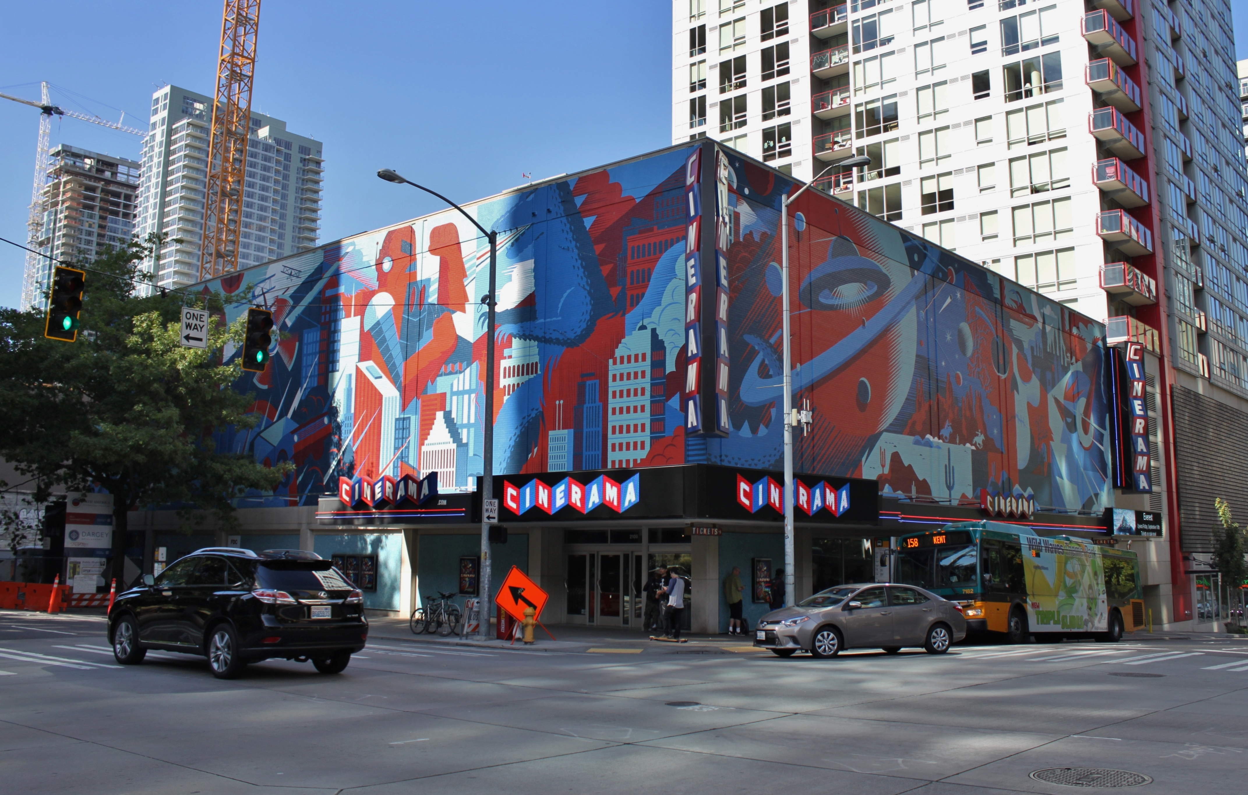 The post-renovation exterior of the Seattle Cinerama in Belltown.